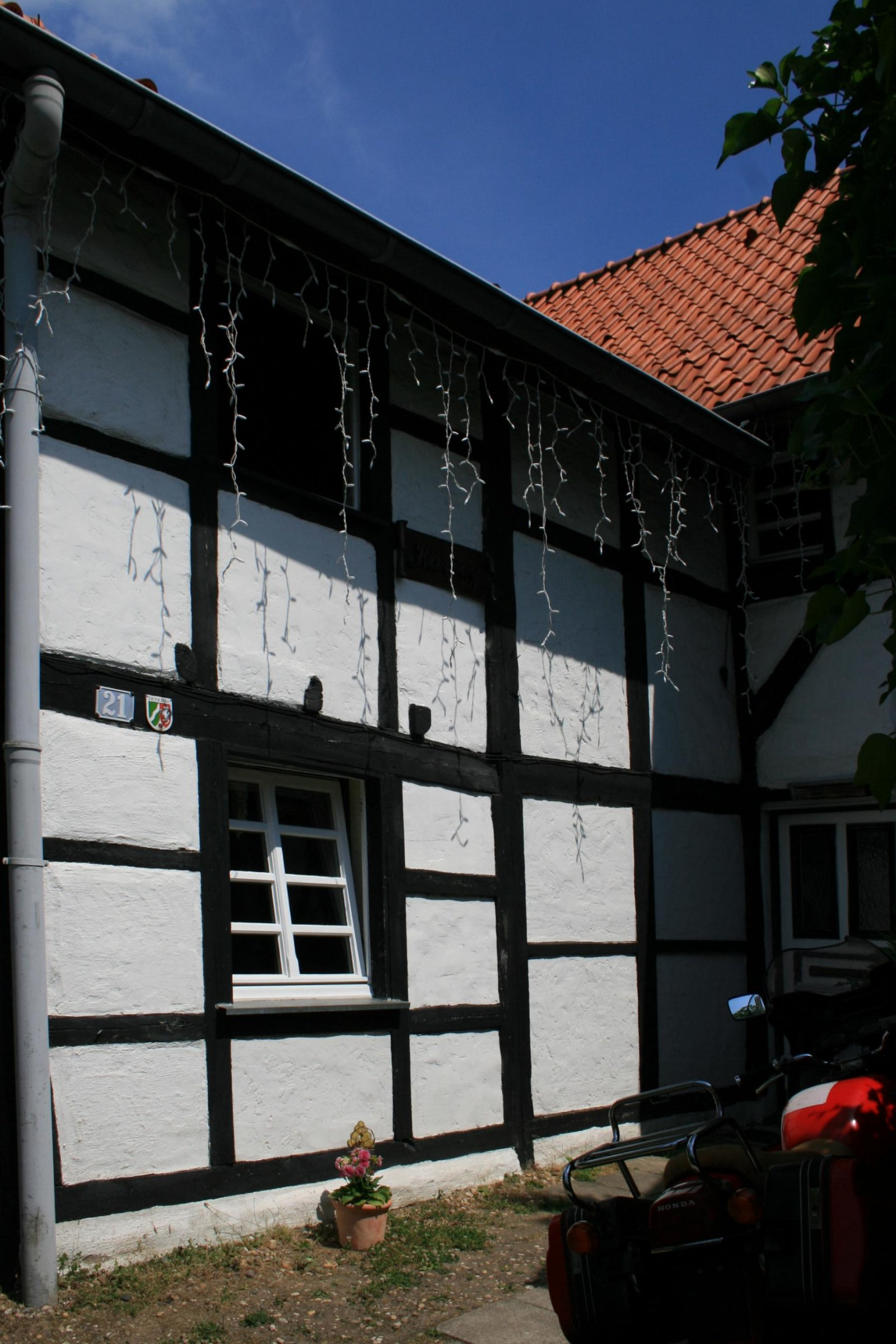 Cultural heritage monument No. U 002 in Mönchengladbach